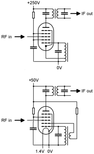 Top: Basic indirectly-heated heptode pentagrid circuitBottom: Basic directly-heated heptode pentagrid circuit